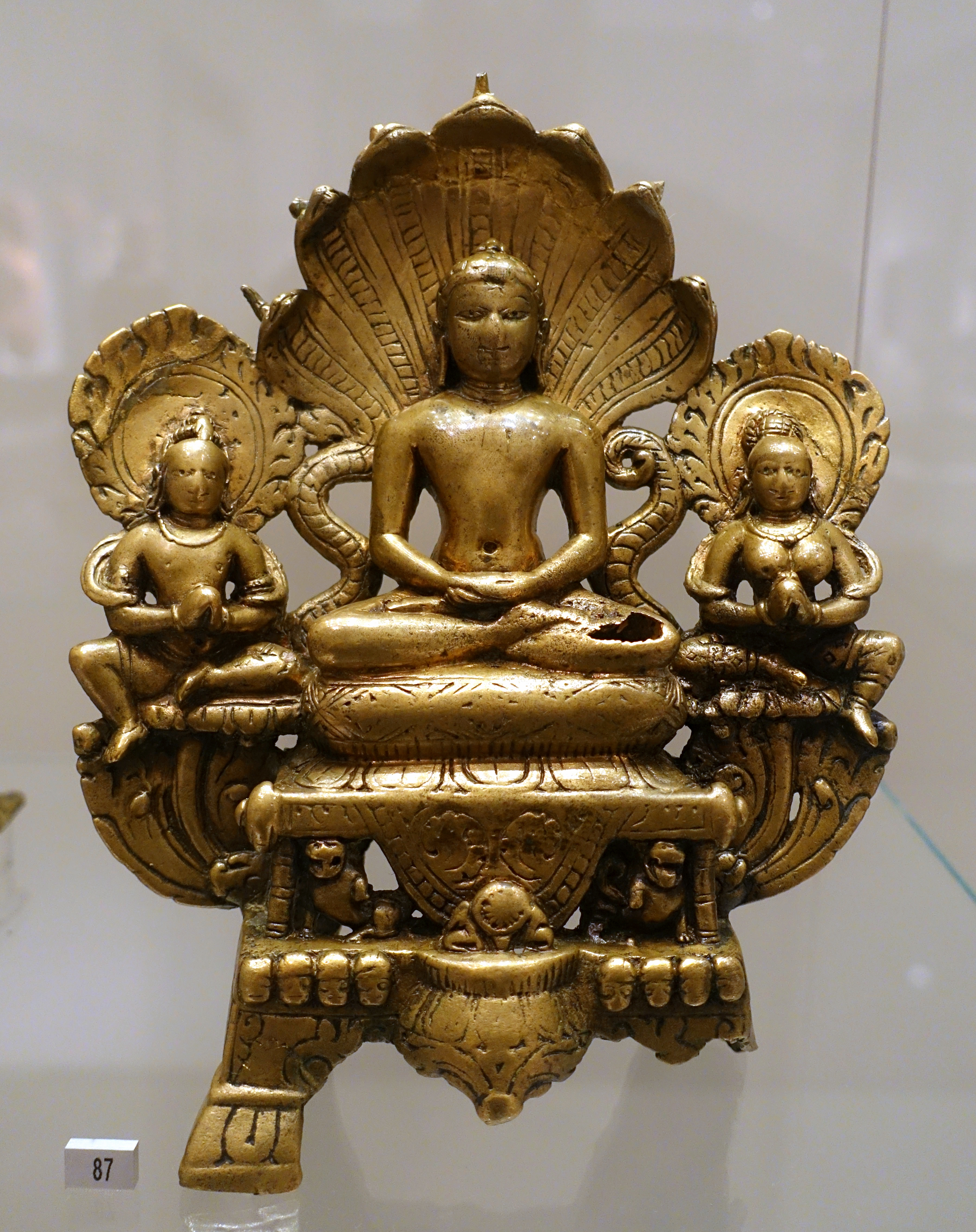 Exhibit in the Ethnological Museum, Berlin, Germany.